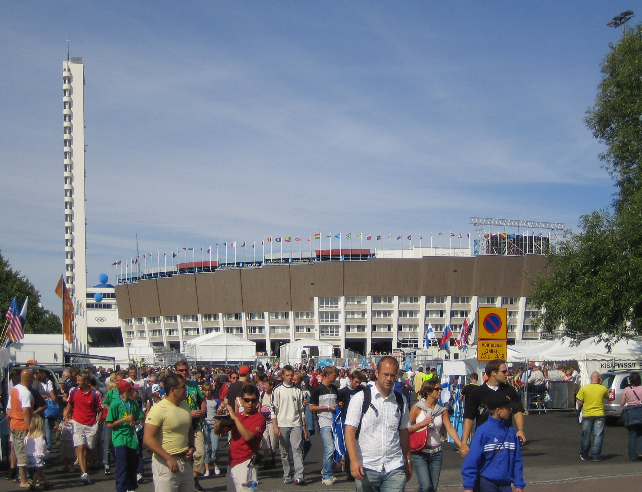 Helsinki Olympic Stadium during 2005 World Championships in Athletics, August 2005.